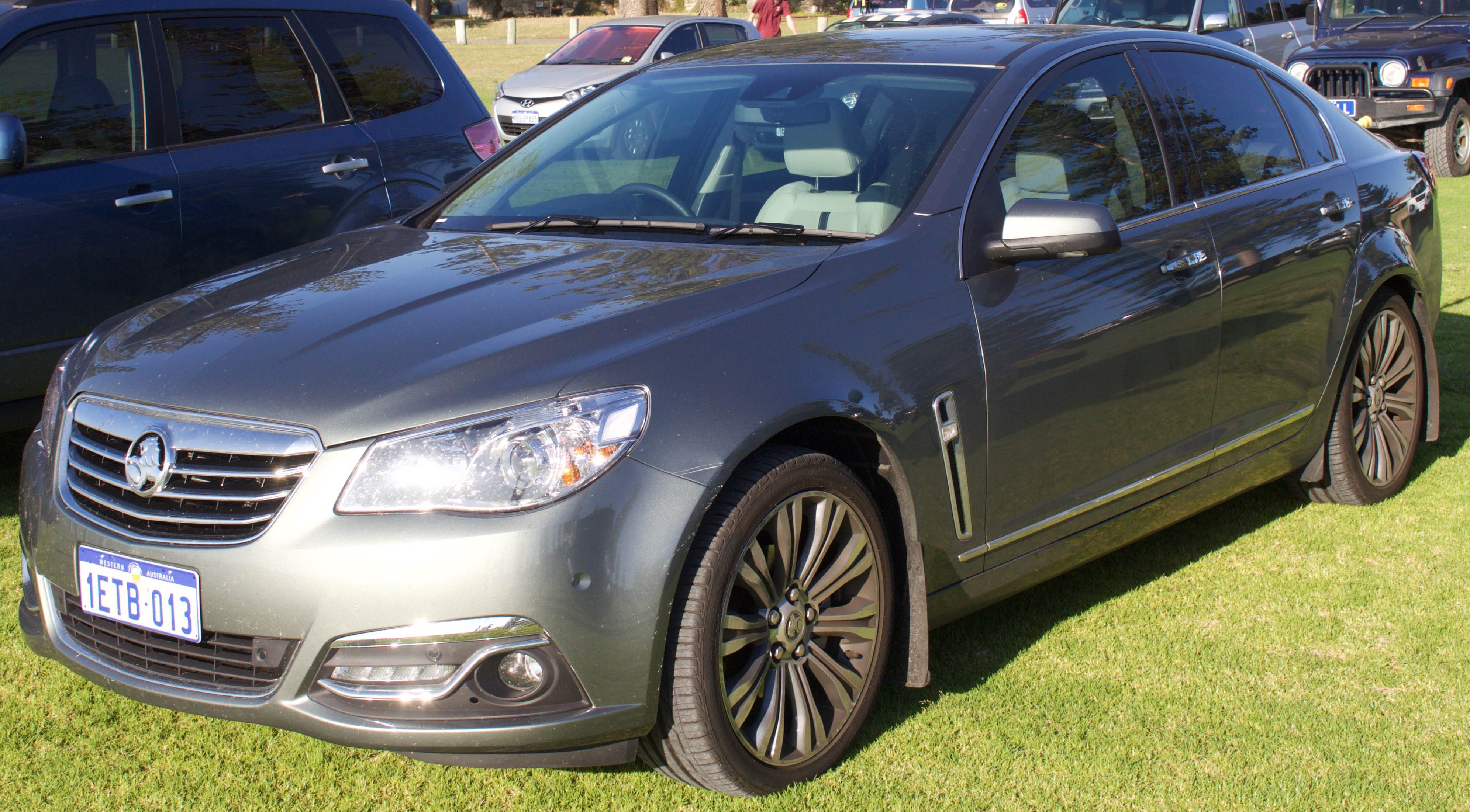 2014-2015 Holden Calais (VF MY15) V sedan. Photographed in Cottesloe, Western Australia Australia.